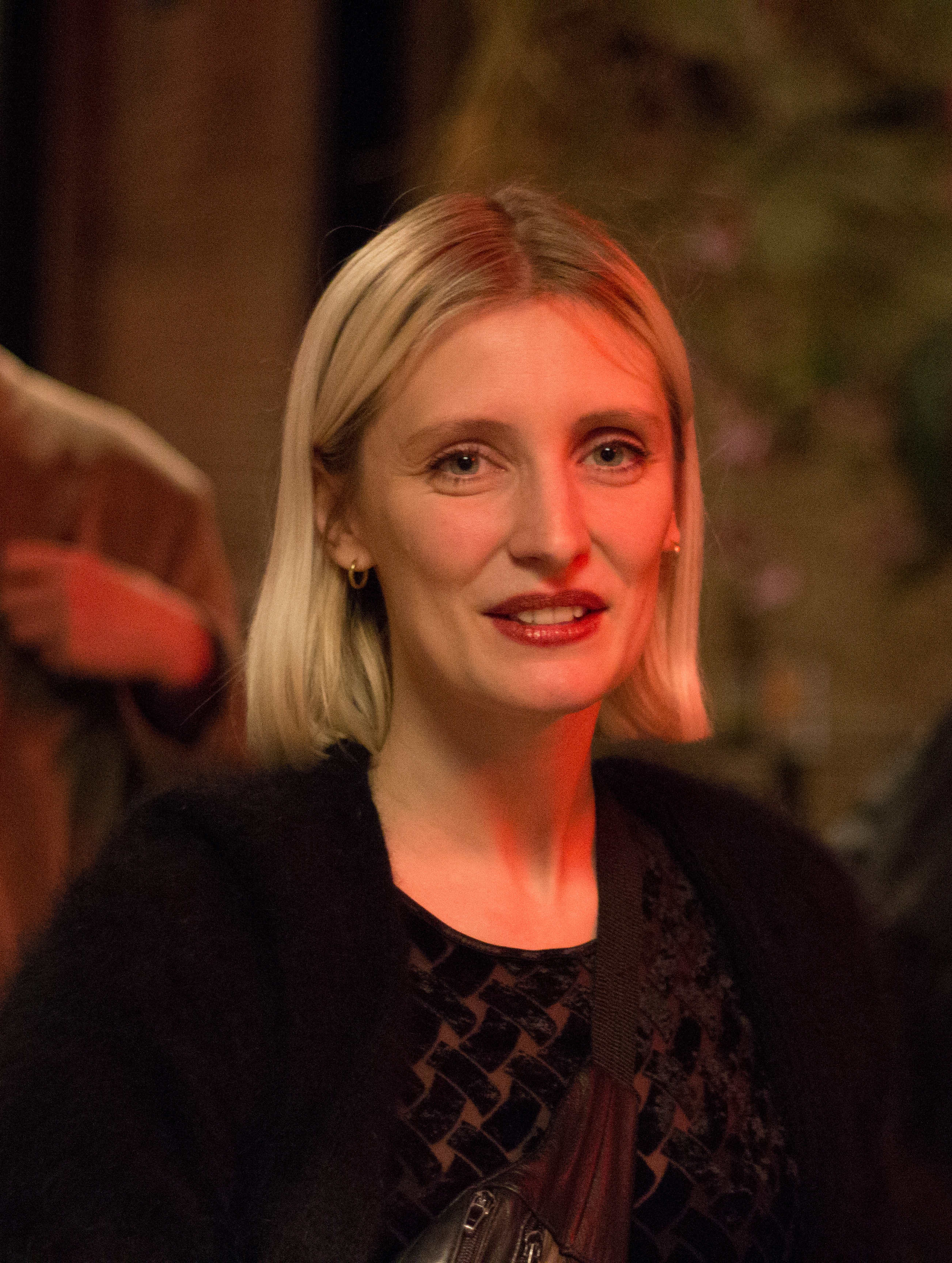 Titus De Voogdt at the 49th International Film Festival Rotterdam to promote the movie "The Barefoot Emperor"